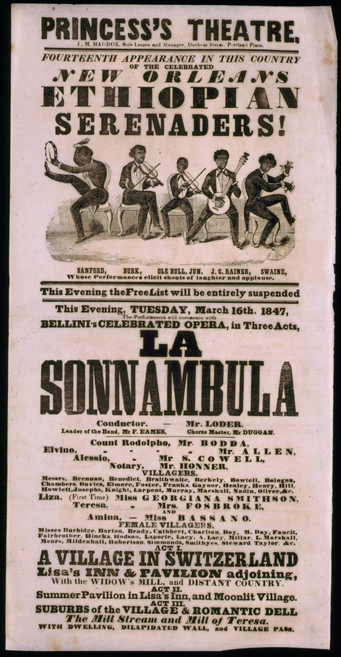 Title: Fourteenth appearance in this country of the celebrated New Orleans Ethiopian Serenaders Abstract: 1 print : black and white lithograph ; sheet 50 x 26 cm. (poster format)